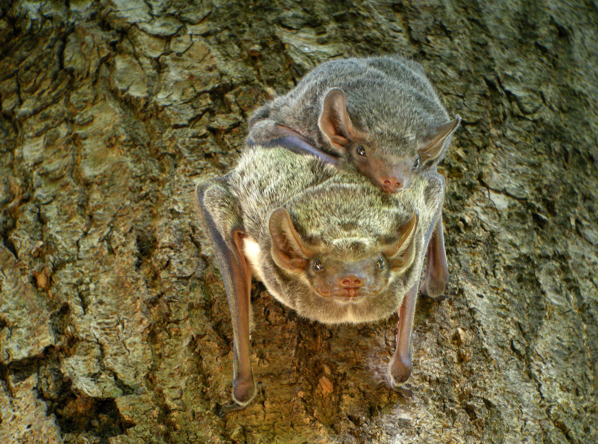 A pair of Mauritian Tomb Bats (Taphozous mauritianus), in Ankarafantsika, Madagascar.